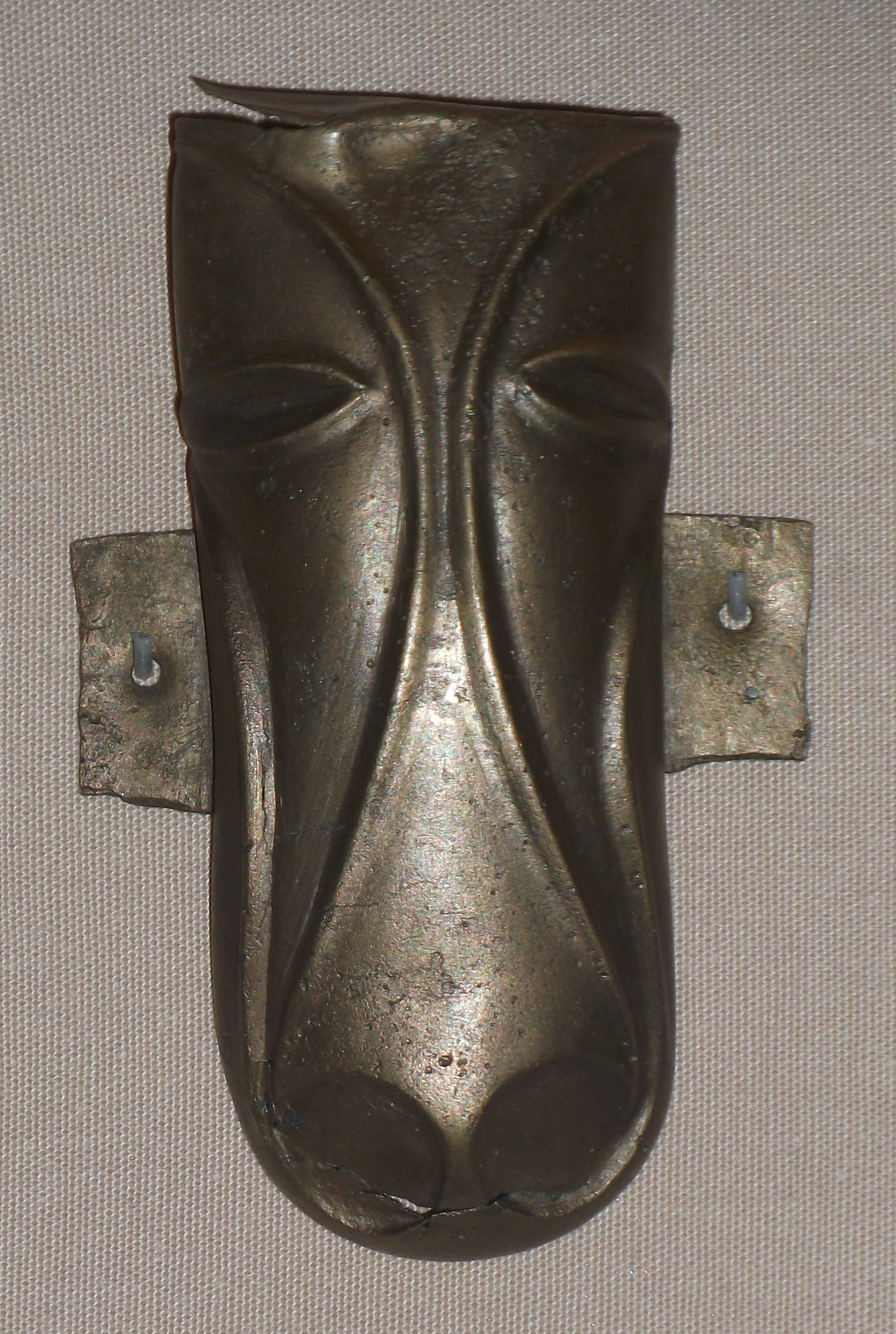 The Stanwick Horse Mask, La Tene style mount, British, 1st century AD, 10 cm. BM, also Laing, Celtic Britain, 75-76